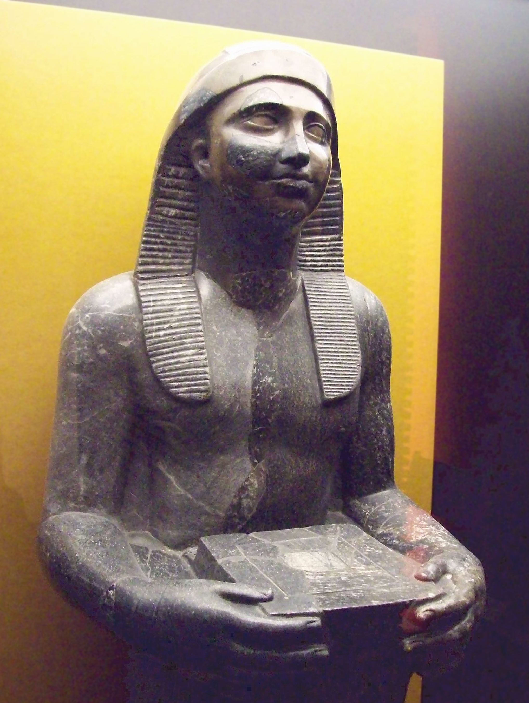 Partial view of a statue of Ancient Egyptian king Nectanebo I holding an offering table.